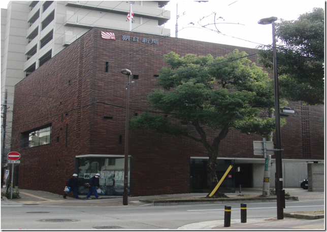 Asahi Shimbun Hanshin Bureau